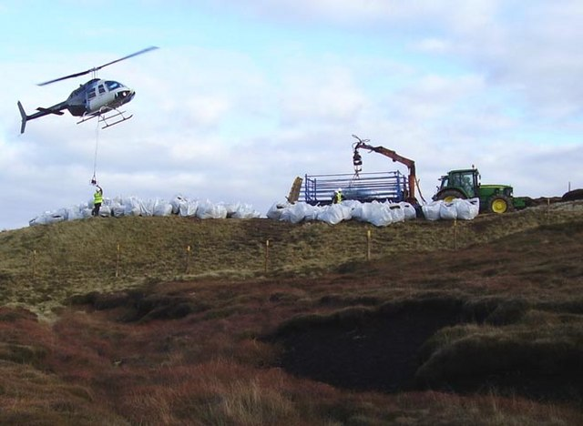 Transporting cut heather to repair the moor Dinsdale Moorland Services have been contracted by United Utilities plc, the owner of the water catchment land, to undertake moorland restoration work in this area. The programme (SCaMP) which is a programme funded by both Natural England and United Utilities plc. The work on this part of the project aims to restore and encourage vegetation coverage to the areas of bare and eroding peat. This work helps to stabilise the peat, and to prevent its further erosion and oxidation. The work will ultimately also benefit moorland wildlife and should also reduce colouration of water running to the collection reservoirs. The work will be ongoing for a number of months through the winter (2007-08) and involves extensive use of helicopters for the deployment of materials to the surrounding moorland. Above text from a Public Information Notice at the site. Heather had been cut and bagged at some other location. It had been brought to site by road and was being flown the short distance by helicopter to Dove Stone Moss. (1.8Mb pdf file)